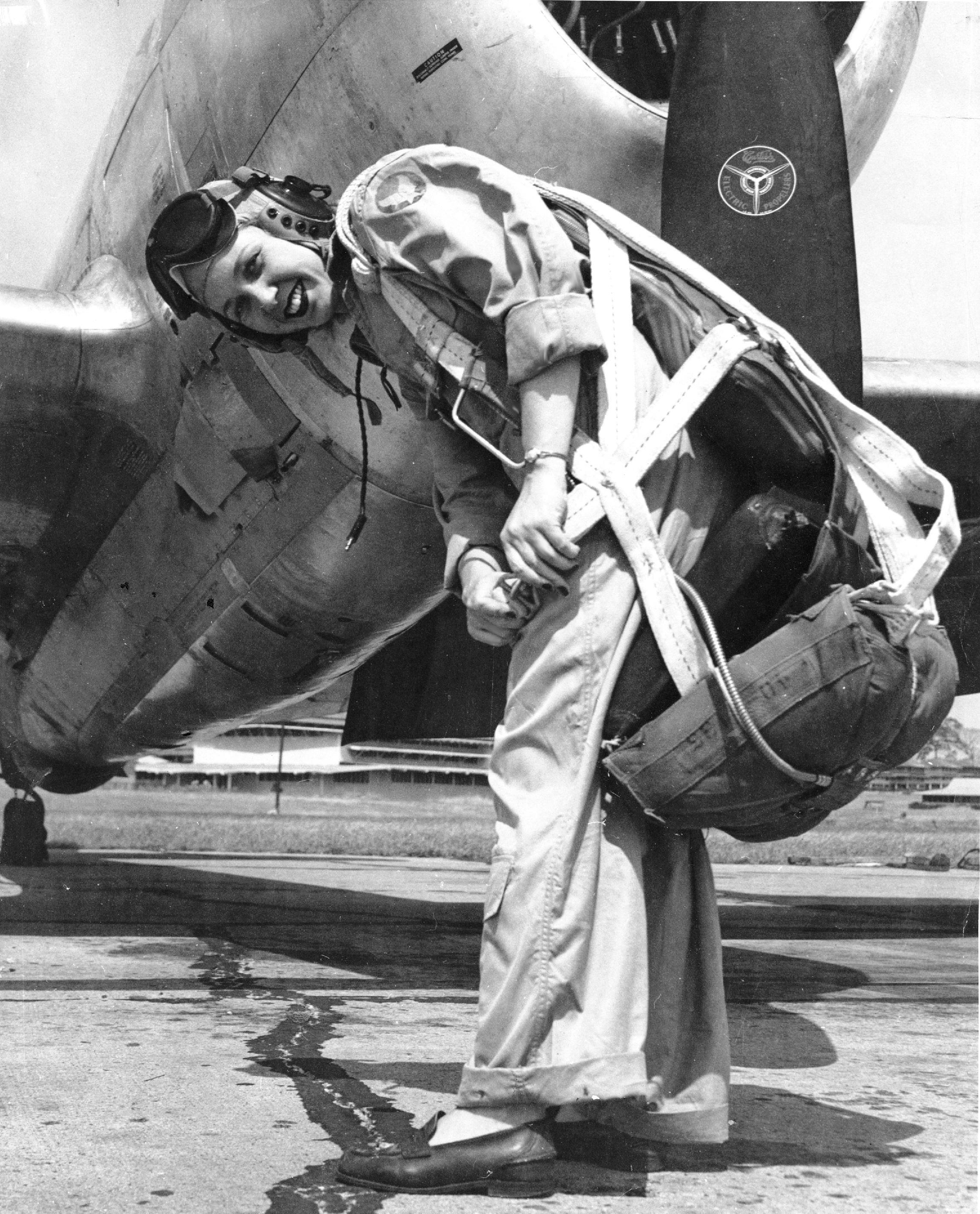 Deanie Parish as a WASP on the flightline at Tyndall Air Force Base, FL, poses with a Republic P-47N, fall 1944.